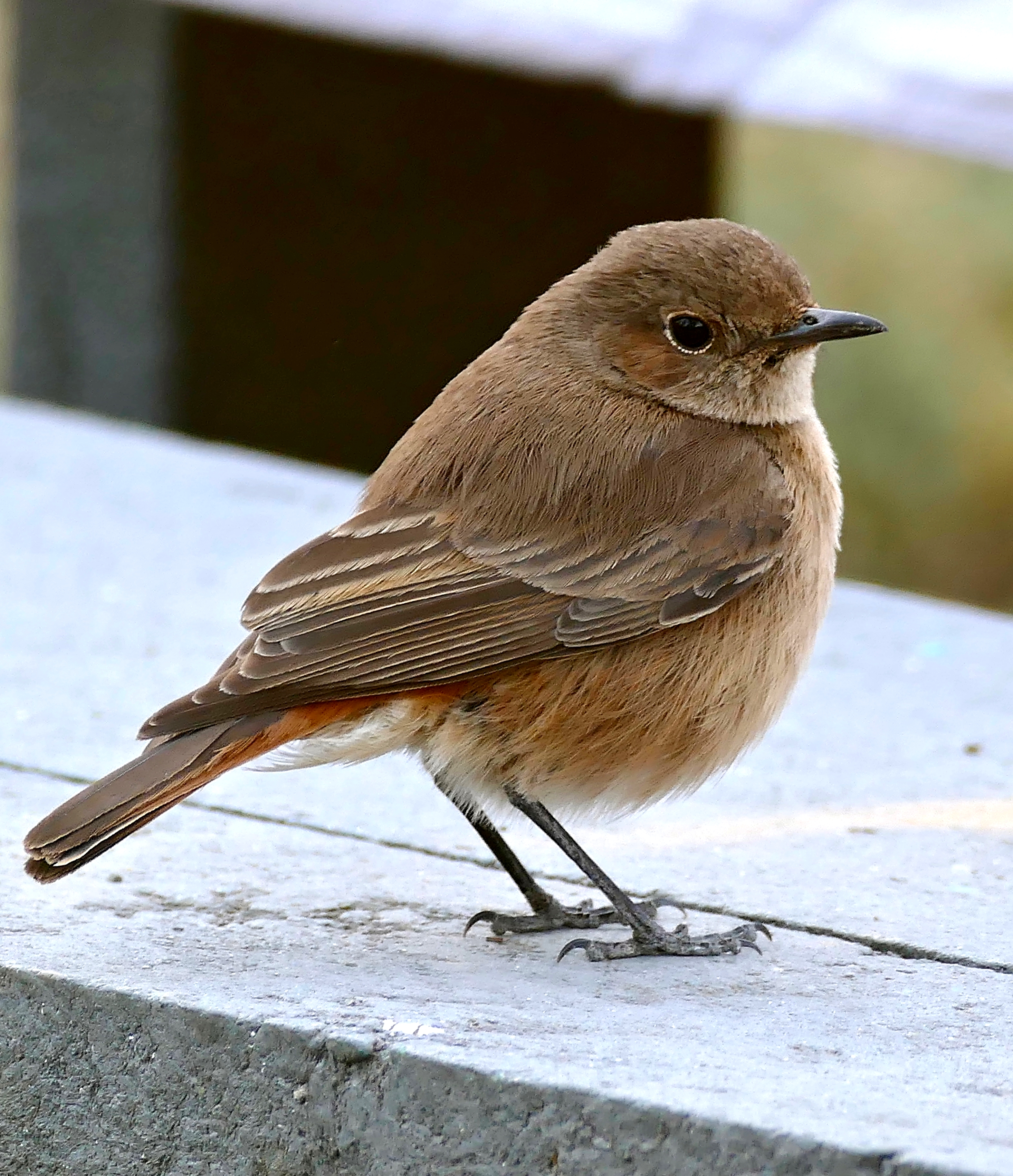 Nqweba Campsite, Camdeboo NP, Eastern Cape, SOUTH AFRICA